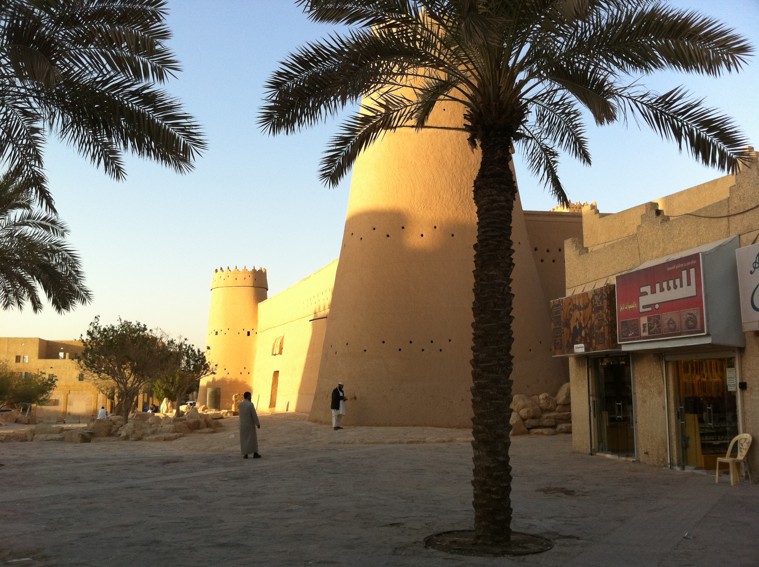 Southwest corner of the Masmak Castle from Thumairi road.